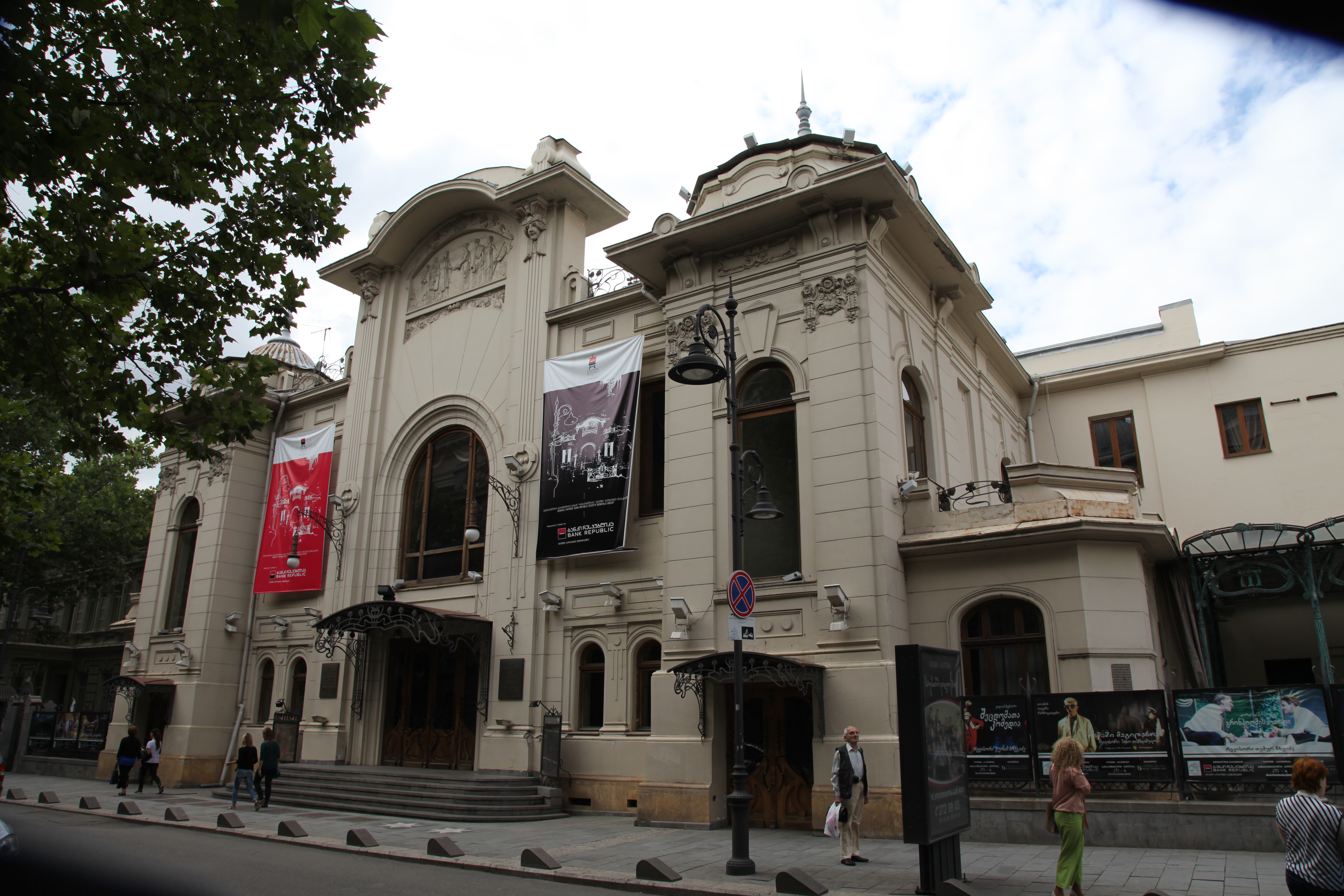 Marjanishvili Theatre The making of this document was supported by Wikimedia Polska. To zdjęcie zostało wykonane podczas Wikiwyprawy 2015. Wszystkie zdjęcia z wyprawy możesz zobaczyć w kategorii: Wikiwyprawa 2015. English | polski | +/− To zdjęcie zostało załadowane dzięki współpracy z firmą Hyperbook. polski | +/− To zdjęcie zostało załadowane dzięki współpracy z firmą: Kopex Group. English | polski | +/−